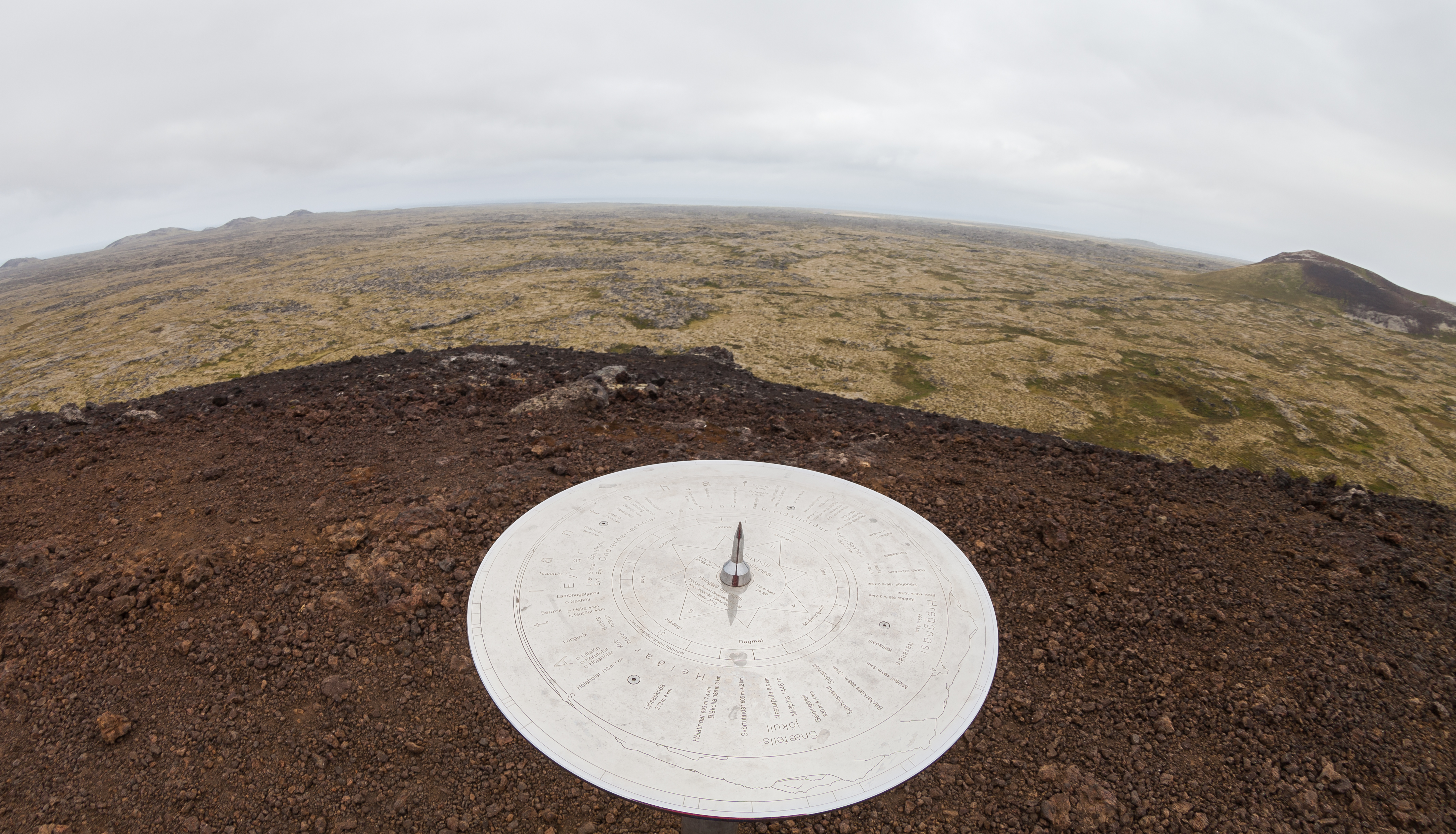 Saxhóll crater, Versurland, Iceland